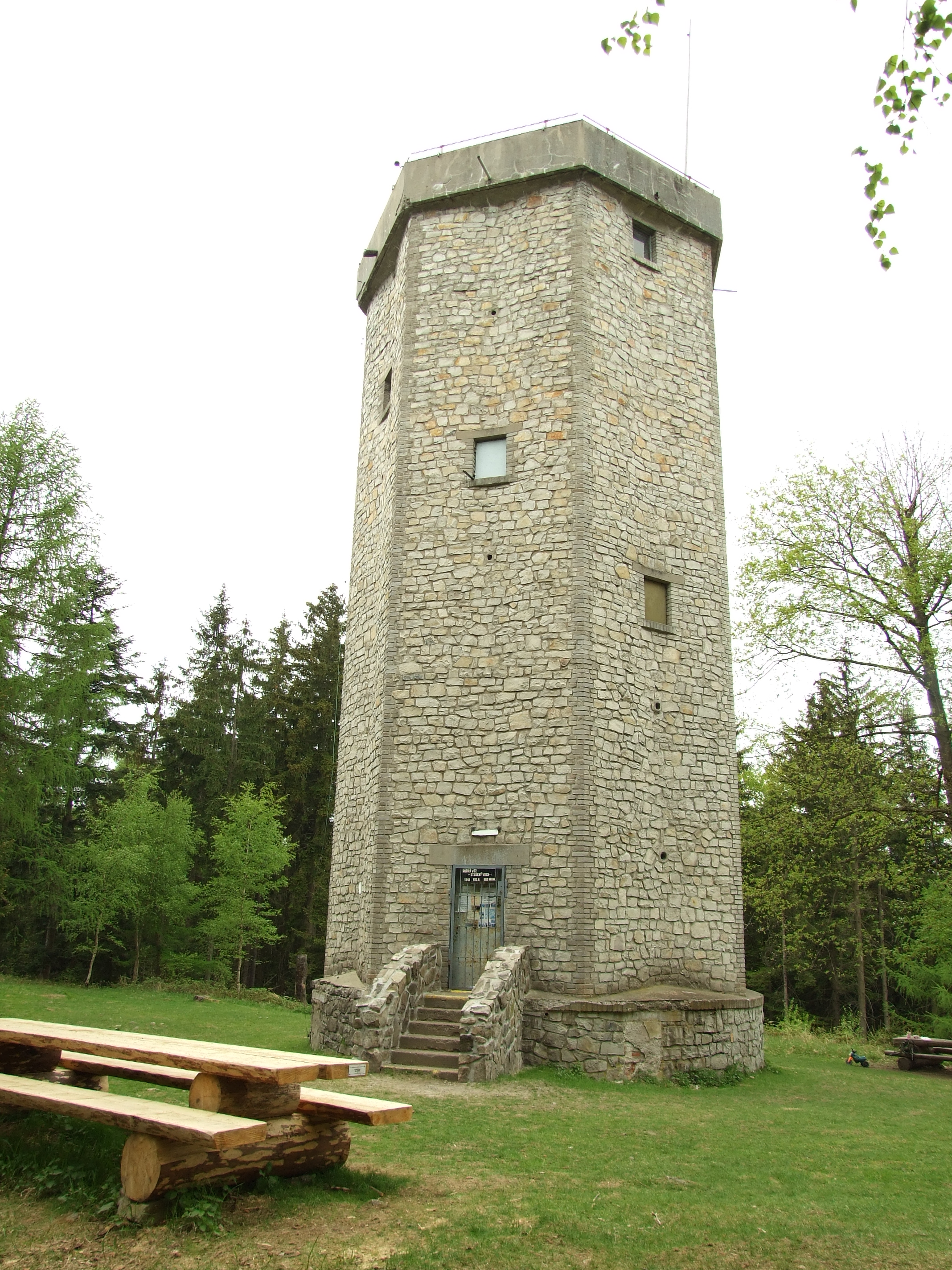 Lookout tower Studený vrch in Brdy in Central Bohemian region, CZhelp